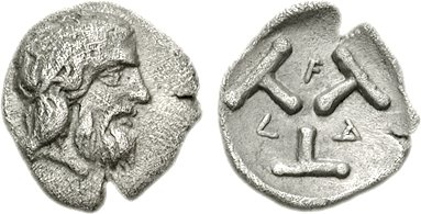 Tritetartimorion, 360 BC, Olympia. 105th Olympiad